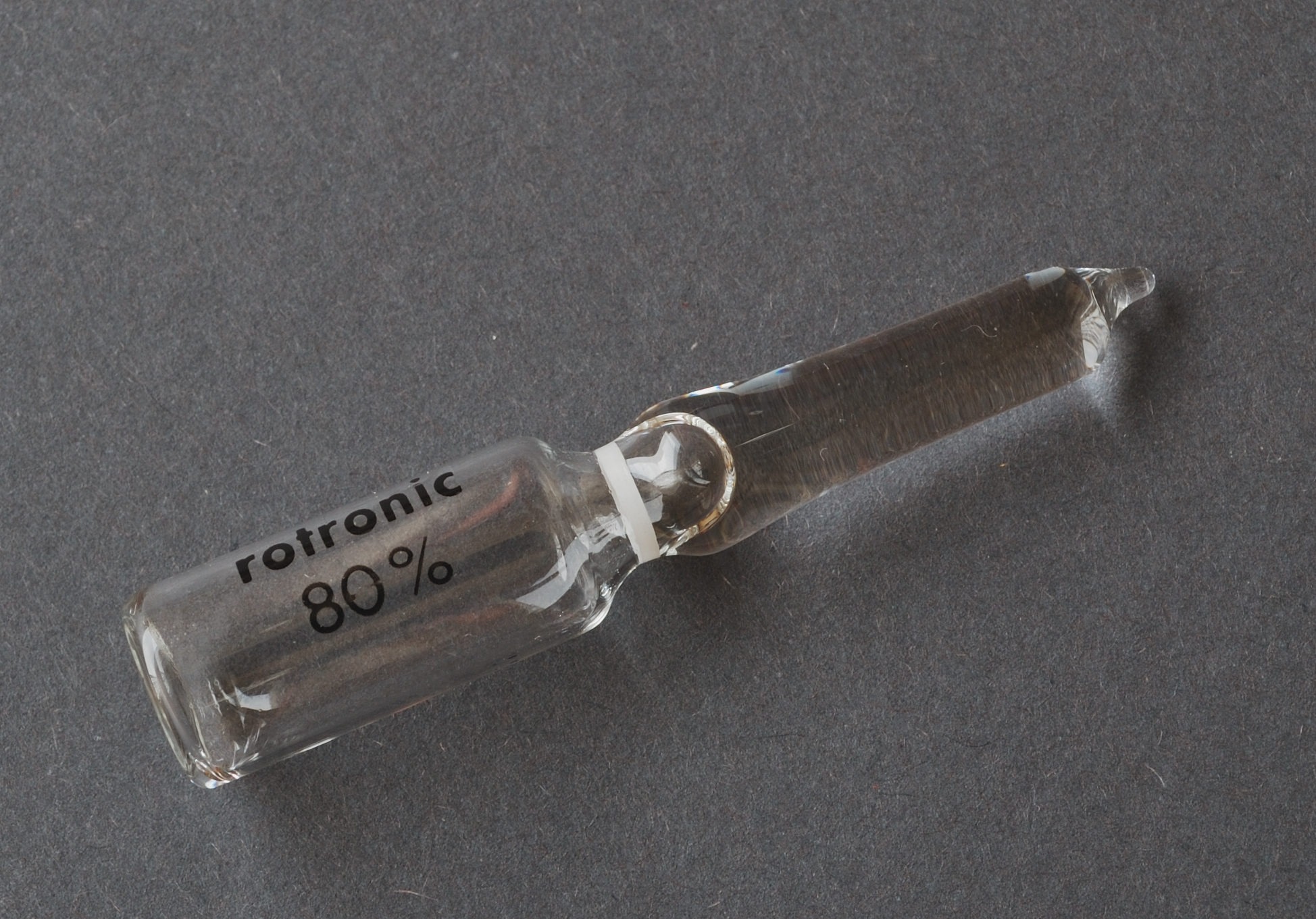 Humidity standard for a hygrometer calibration. To perform the calibration, the hygrometer probe is screwed into a special calibration device. Then the content of the broken ampoule is brought into it. After achieving the humidity equilibrium the hygrometer is adjusted to the value on the ampoule (80% rh). The ampoule is filled with a Lithiumchloride solution. Ampoule diameter 10 mm, ampoule length 53 mm.